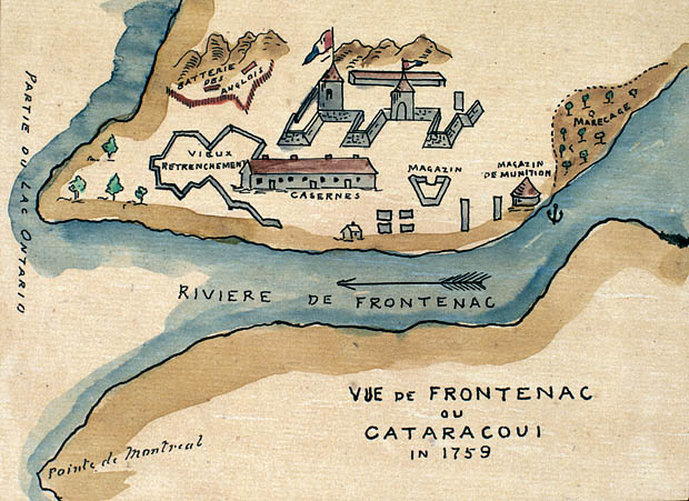 View of Frontenac or Cataracoui in 1759. Watercolor with pen and black ink on paper laid down onto light board. This is one illustration in an album (publication?), compiled by Alfred Sandham. The series of albums is titled "Magnificent Collection of Extra-Illustrated Books on Canadian History and Biography". Album: D.B. Read, The Life and Times of Gen. John Graves Simcoe..., Toronto, 1890, extra illustrated by Alfred Sandham, Pt. 2, p.137a.